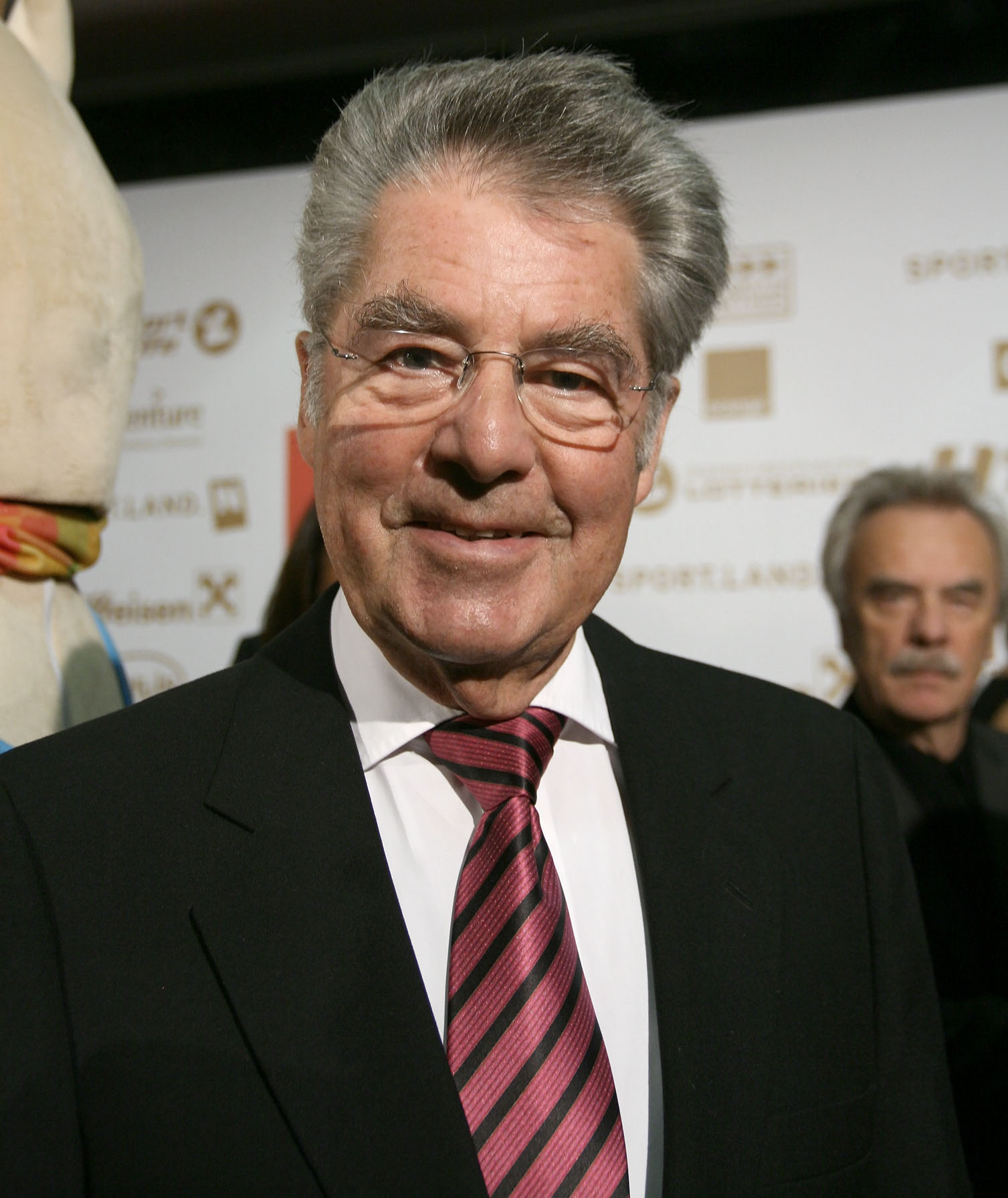 Austrian federal president Heinz Fischer at the award show for the Austrian Sportspersonalities of the year 2011.